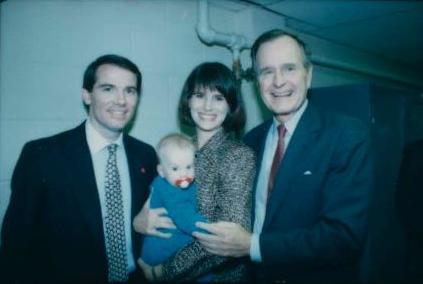 PRESIDENT BUSH ADDRESSES A STAND UP RECEPTION FOR OHIO GOP TICKET AT THE WESTIN HOTEL. KEN BLACKWELL, CONGRESSIONAL CANDIDATE AND MASTER OF CEREMONIES PRESENTS THE PRESIDENT WITH A CEREMONIAL 'CLEAN SWEEP' BROOM. DAIS PARTICIPANTS ARE: REP. MIKE DEWINE, GEORGE VOINOVICH, KEN BLACKWELL, BOB BENNETT, MARTHA MOORE, BOB TAFT, REP. BILL GRADISON AND REP. BOB MCEWEN. THE BACKDROP READS 'OHIO REPUBLICAN PARTY CLEAN SWEEP 1990.' INCLUDES TIGHT SHOTS OF THE PRESIDENT AND BLACKWELL. INCLUDES STAFF AND POLICE PHOTOS AND THE PRESIDENT WITH THE ROB PORTMAN AND JOE HAGIN FAMILIES.